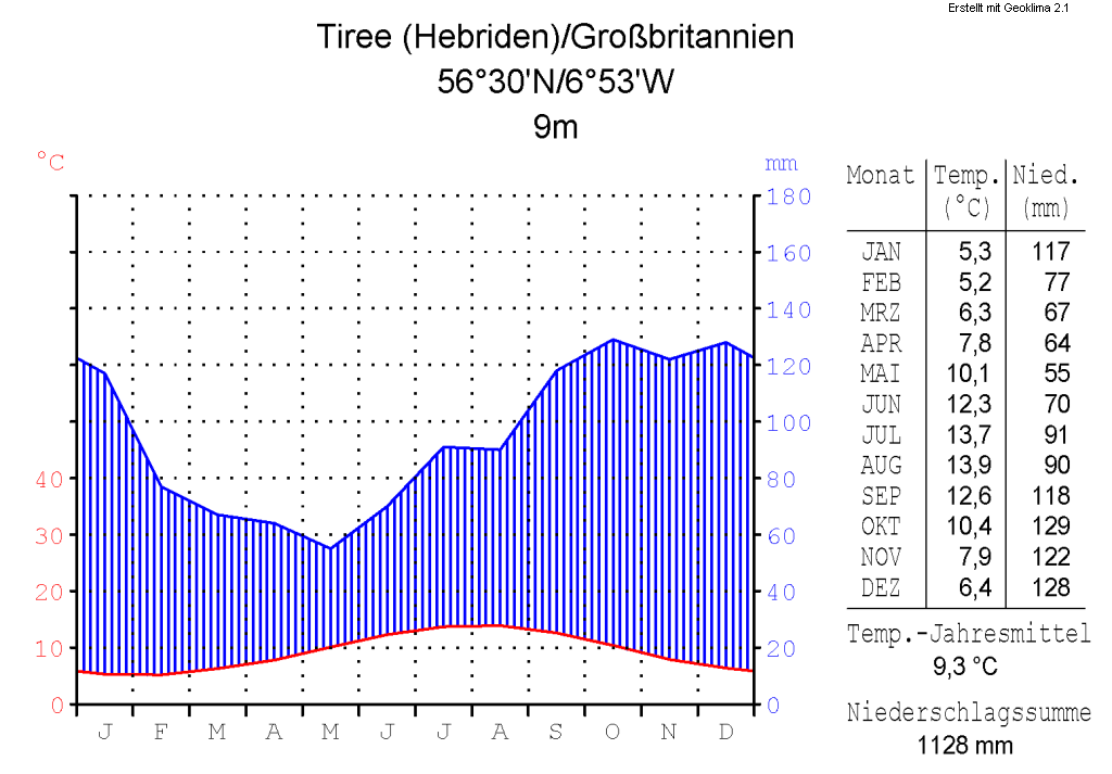 climate chart in the format by Walter and Lieth, metric, °Celsisus and millimeters, made with Geoklima 2.1